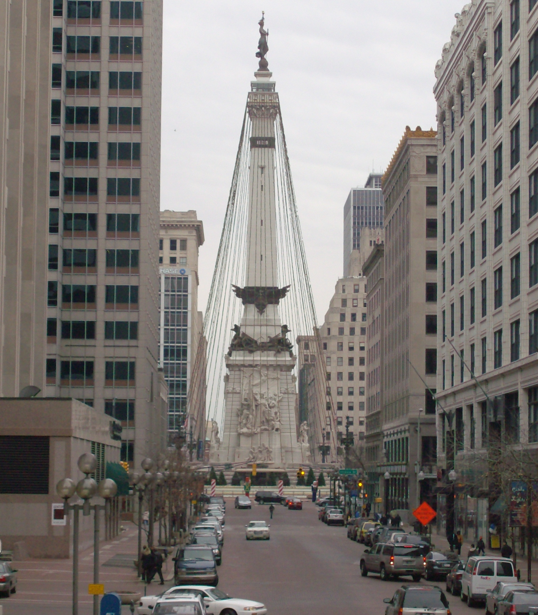 Soldiers' and Sailors' Monument (Indianapolis) as viewed down Market Street from the state capitol.